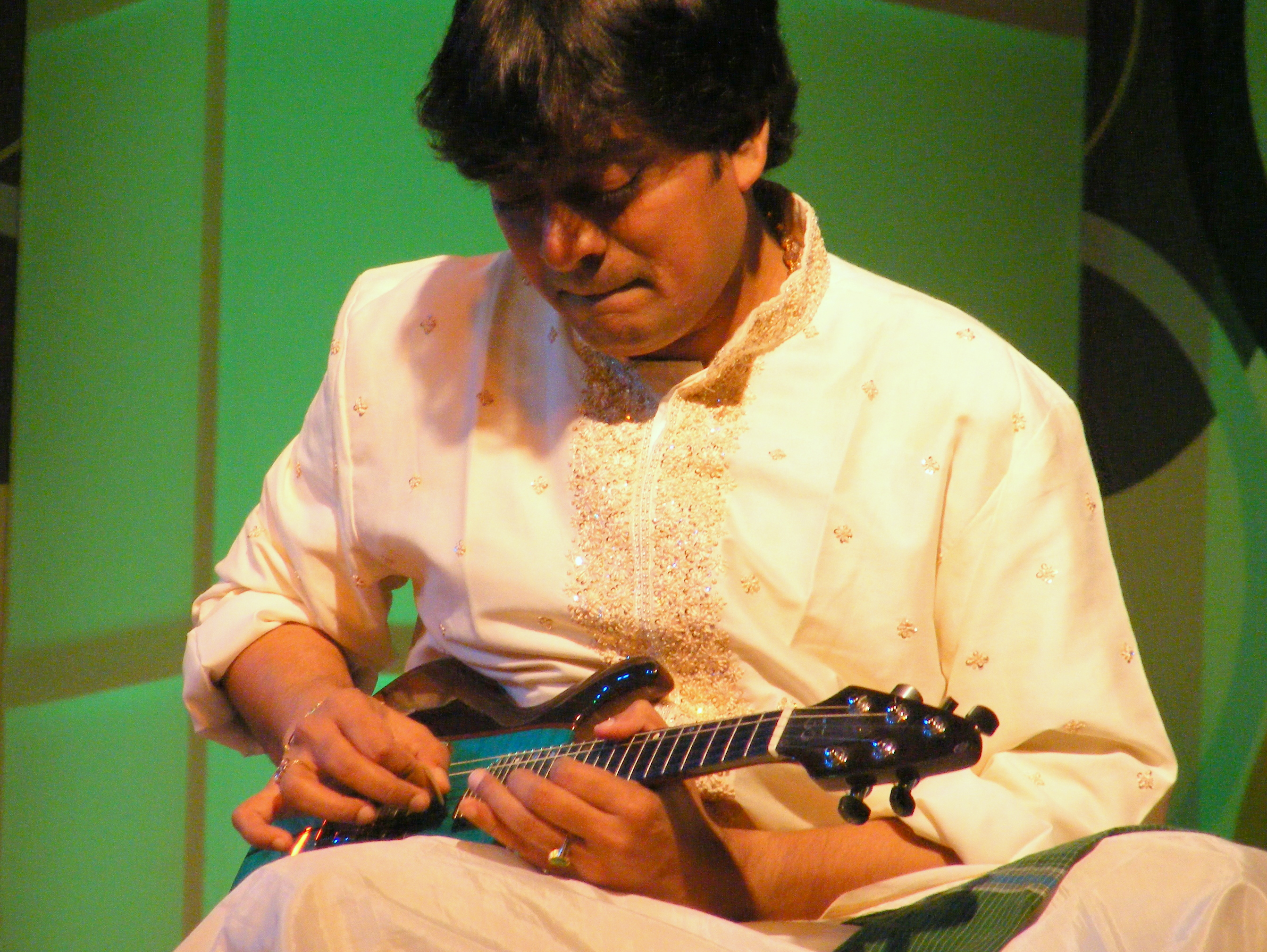 Live performance at Poona Club Lawns for Times Festival 2009